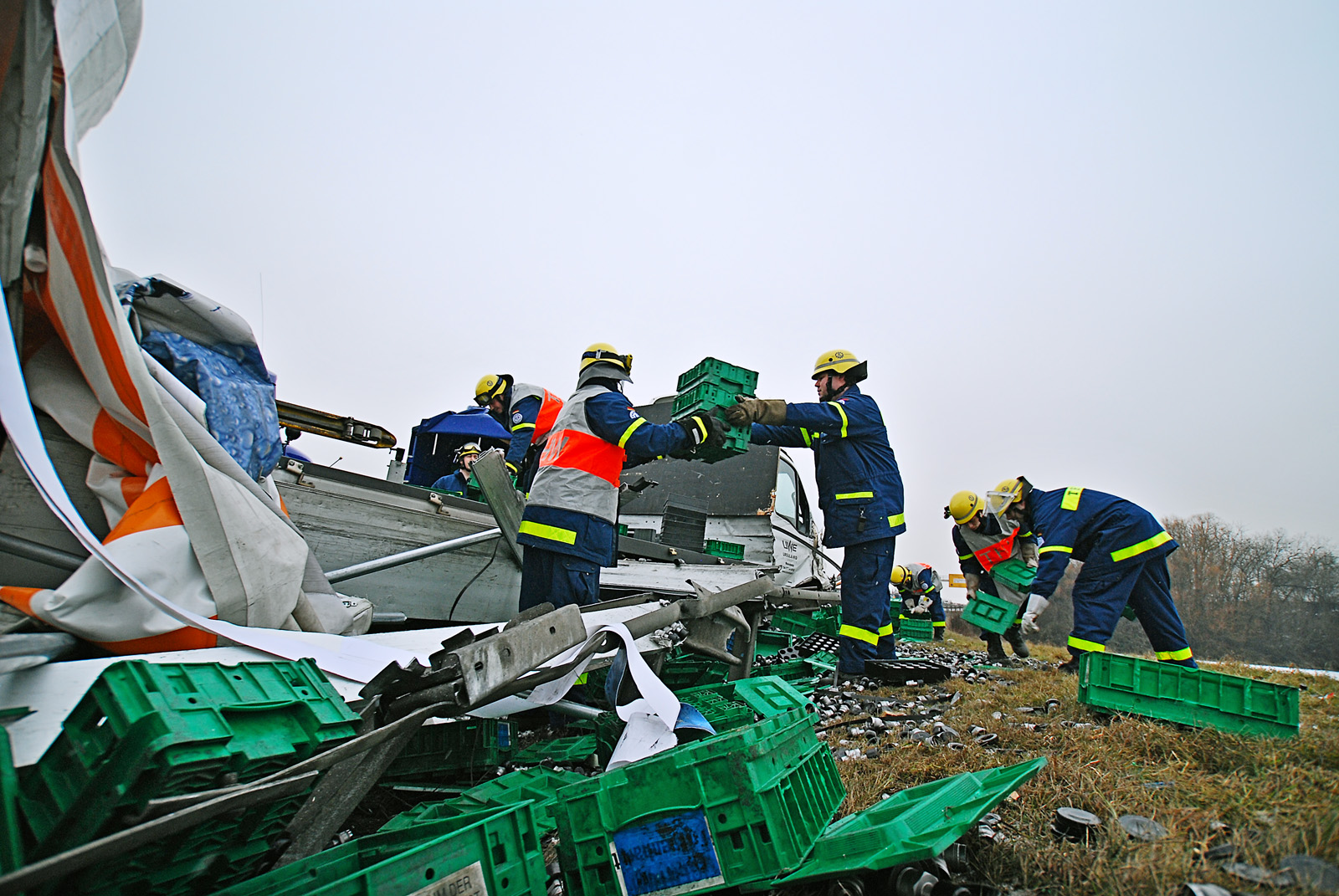 After an accident with a small truck on a german highway (BAB 81), members of the "German Federal Agency for Technical Relief" (THW) had to pick up the cargo.